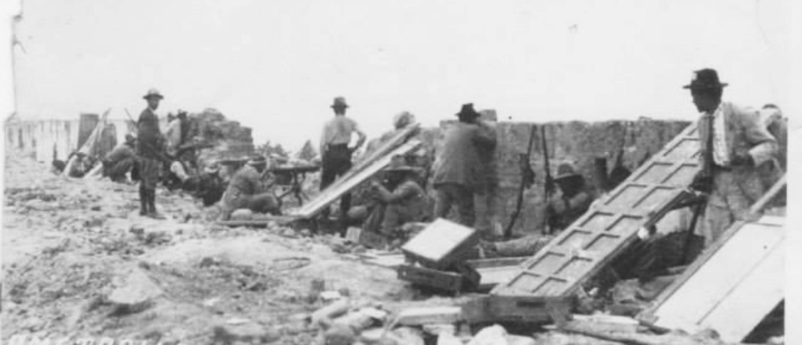 Semana trágica contra Manuel Estrada Cabrera.